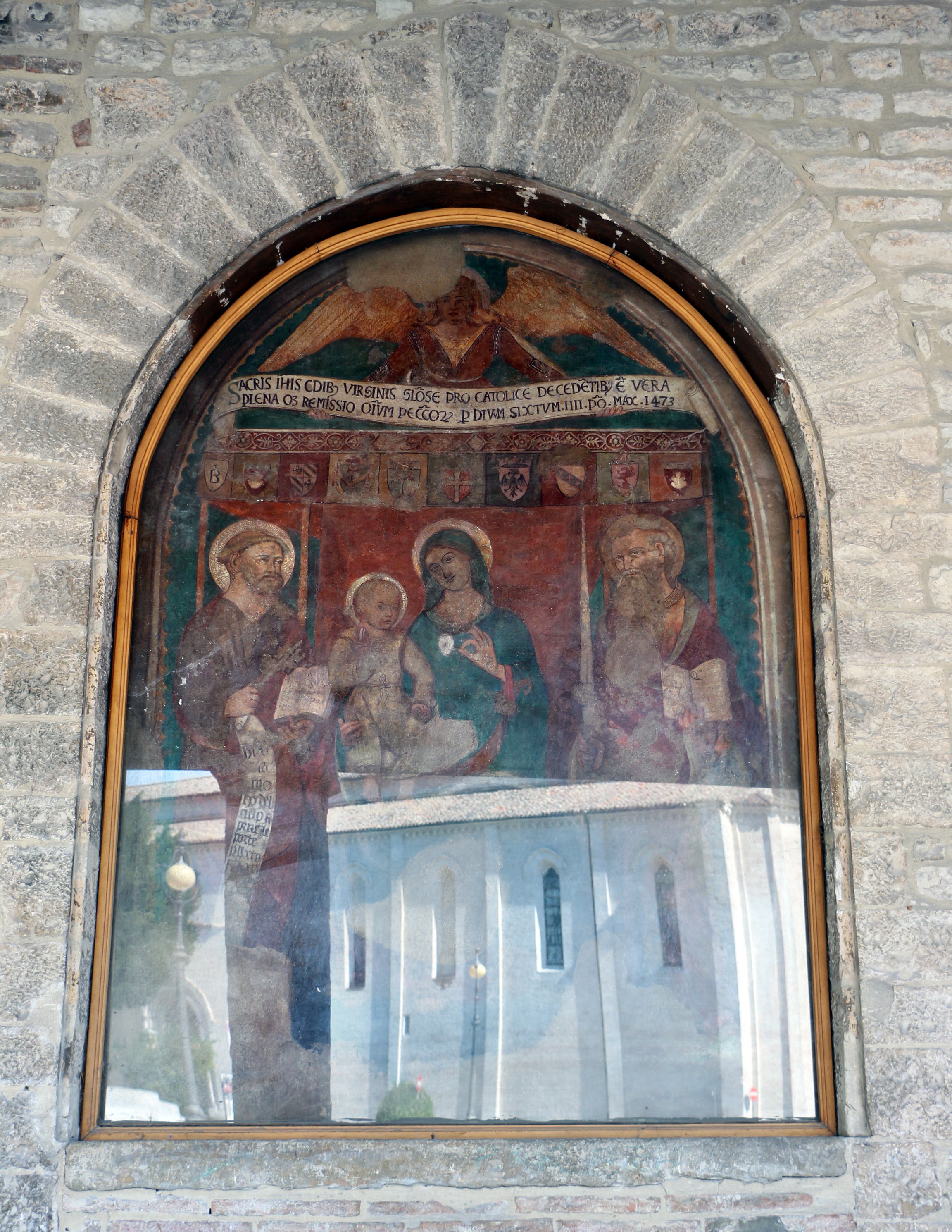 Loggia dei Tiratori (Gubbio)